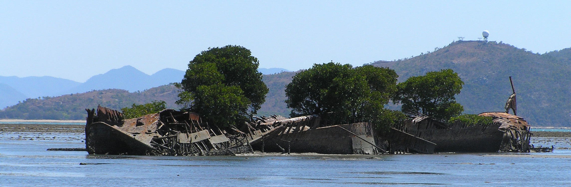 The Adelaide, a 77m Coal Barque which caught fire and was wrecked offshore of Cockle Bay, Magnetic Island.